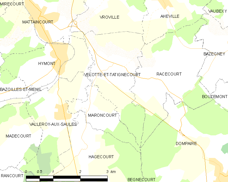 Map of French municipality Velotte-et-Tatignécourt